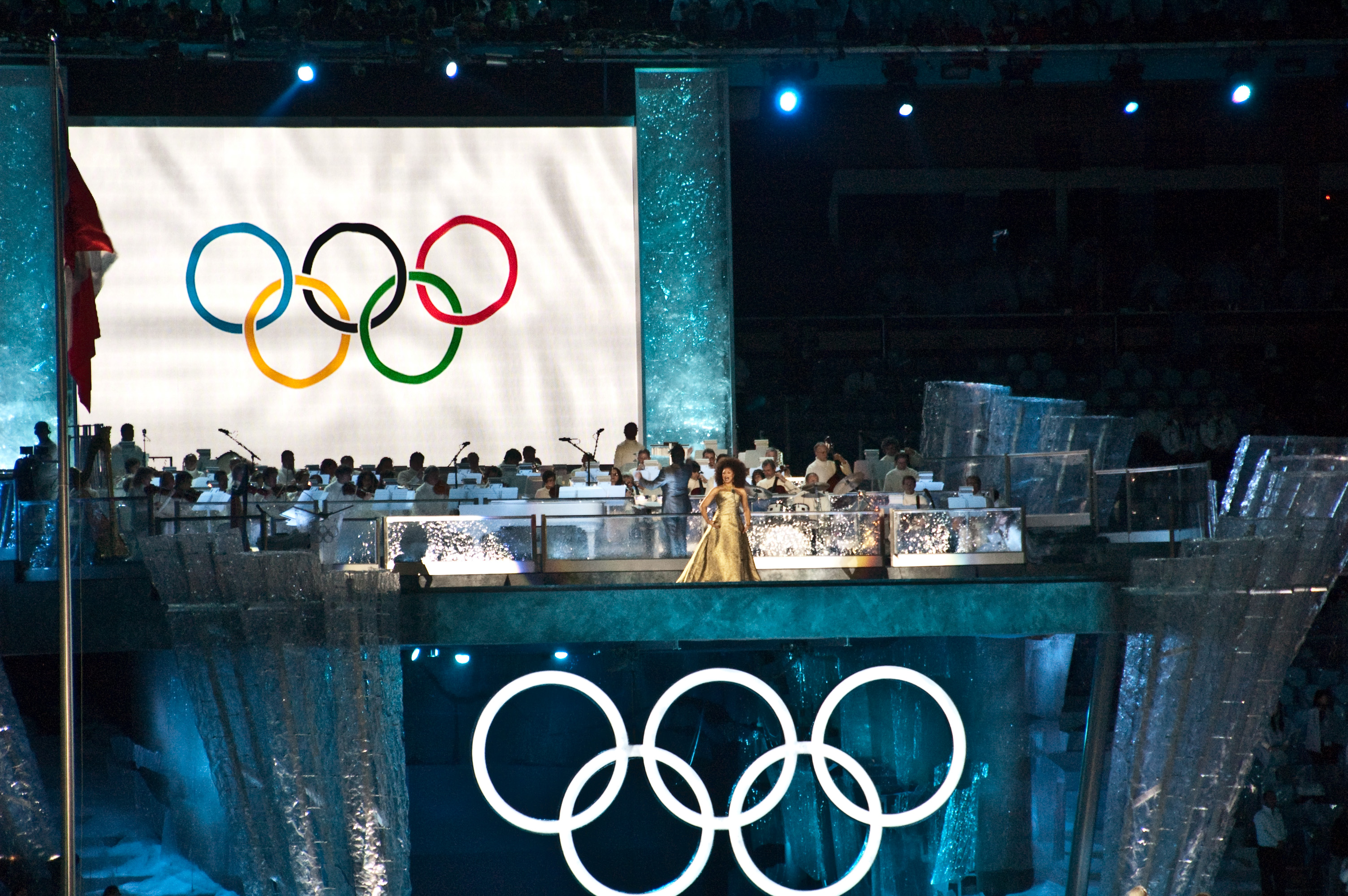 Measha Brueggergosman performing at the opening ceremonies of the 2010 Winter Olympics